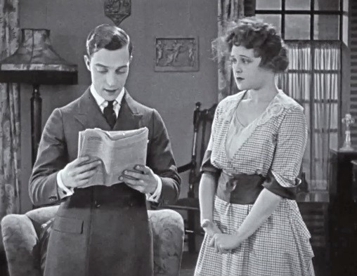 Buster Keaton & Carol Holloway in The Saphead - cropped screenshot